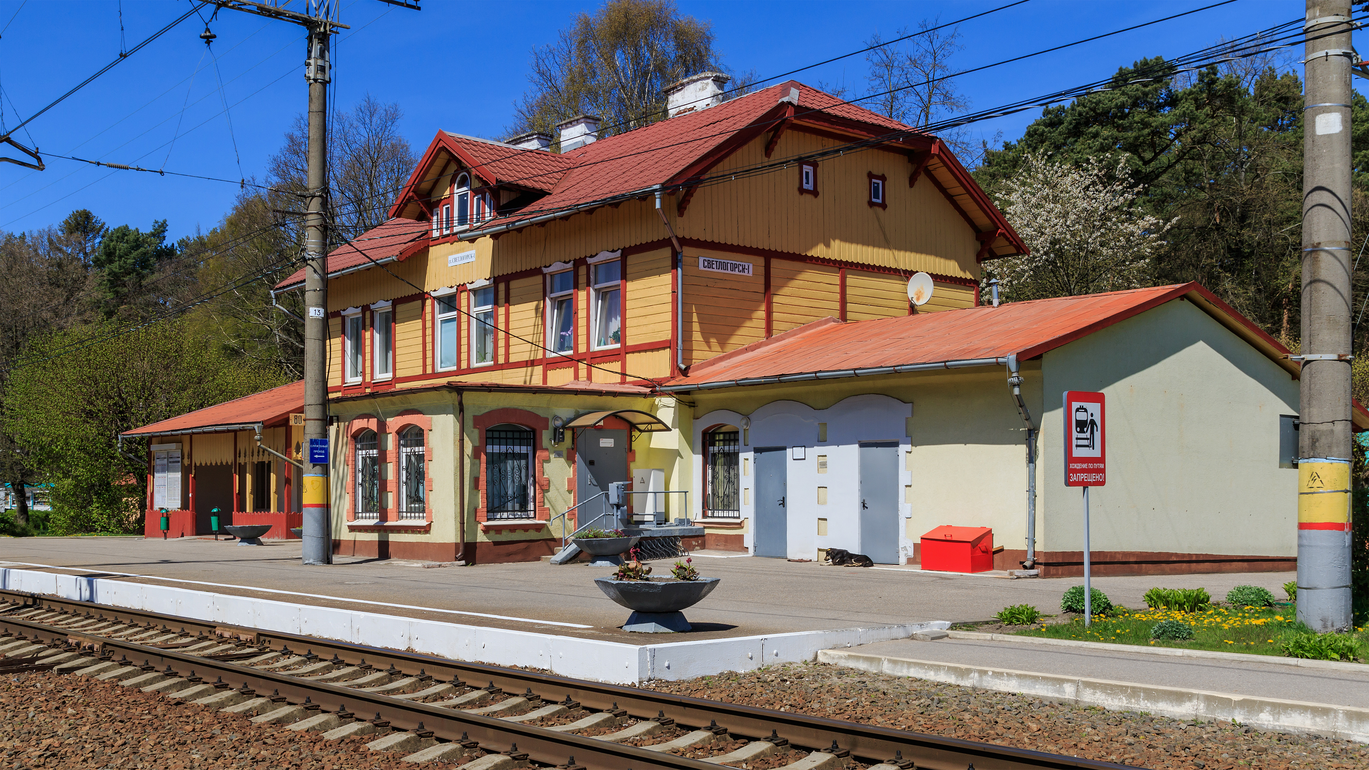 Svetlogorsk-1 railway station in Svetlogorsk formerly Rauschen / Kaliningrad Oblast (Russia).